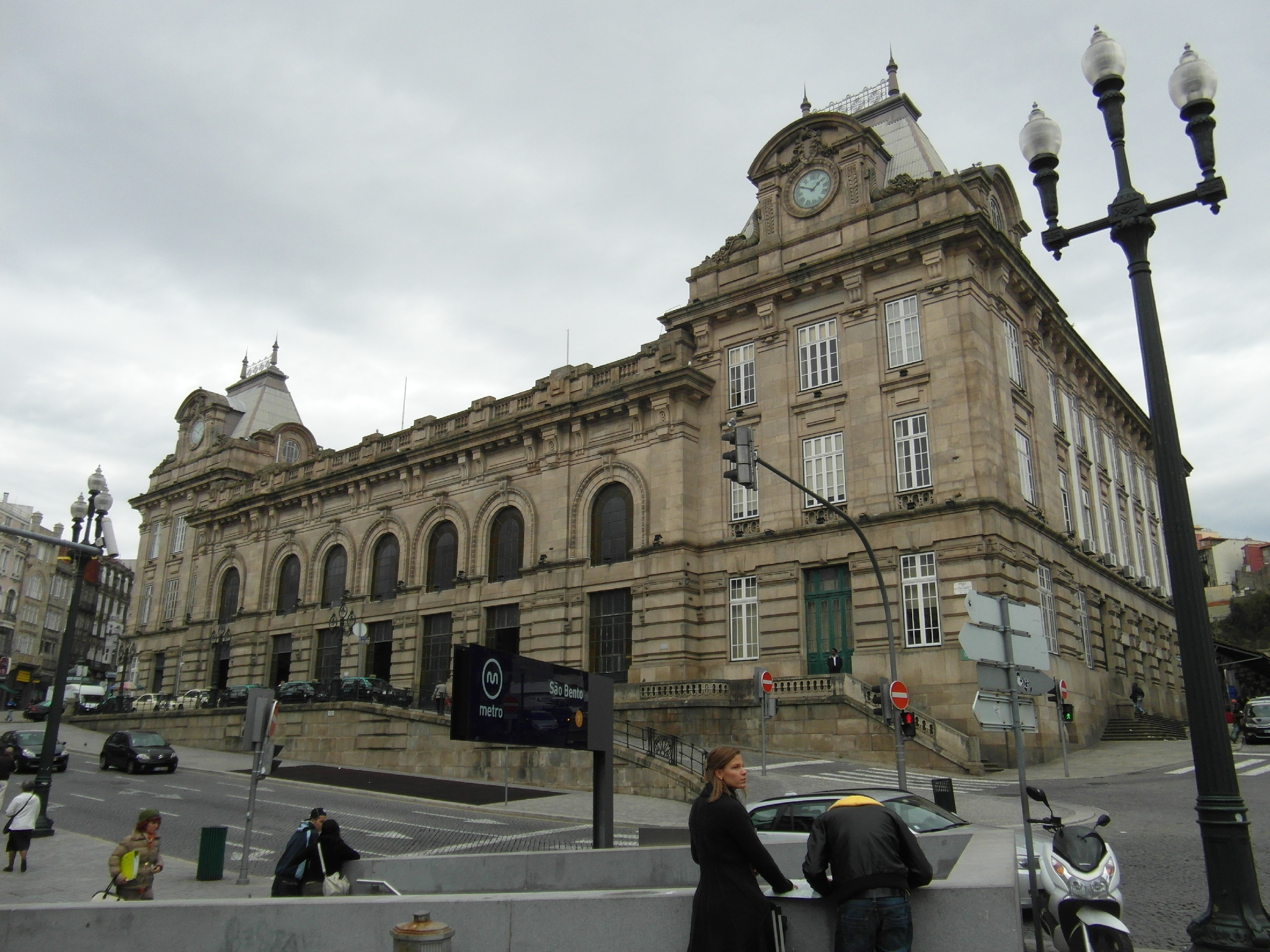 Porto São Bento train station, Porto, Portugal